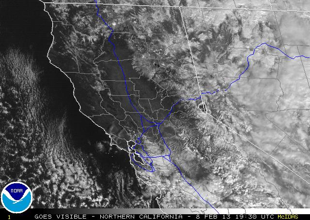 Lack of clouds along the West California Coast, due to the cold and deep waters coming up from the sea bed because Earth's rotation from West to East